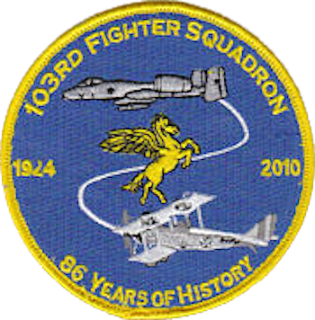 103d Fighter Squadron Inactivation Emblem